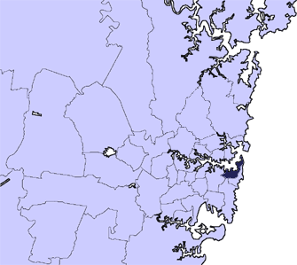 Locator Map Woollahra lga sydney.png Based on Image:Ku-ring-gai sydney.png by User:Randwicked.